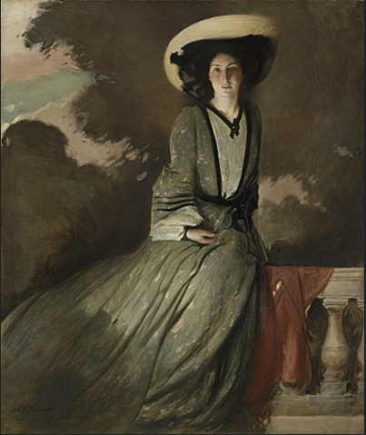 Portrait of Mrs. John W. Alexander in a plumed hat and flowing dress.